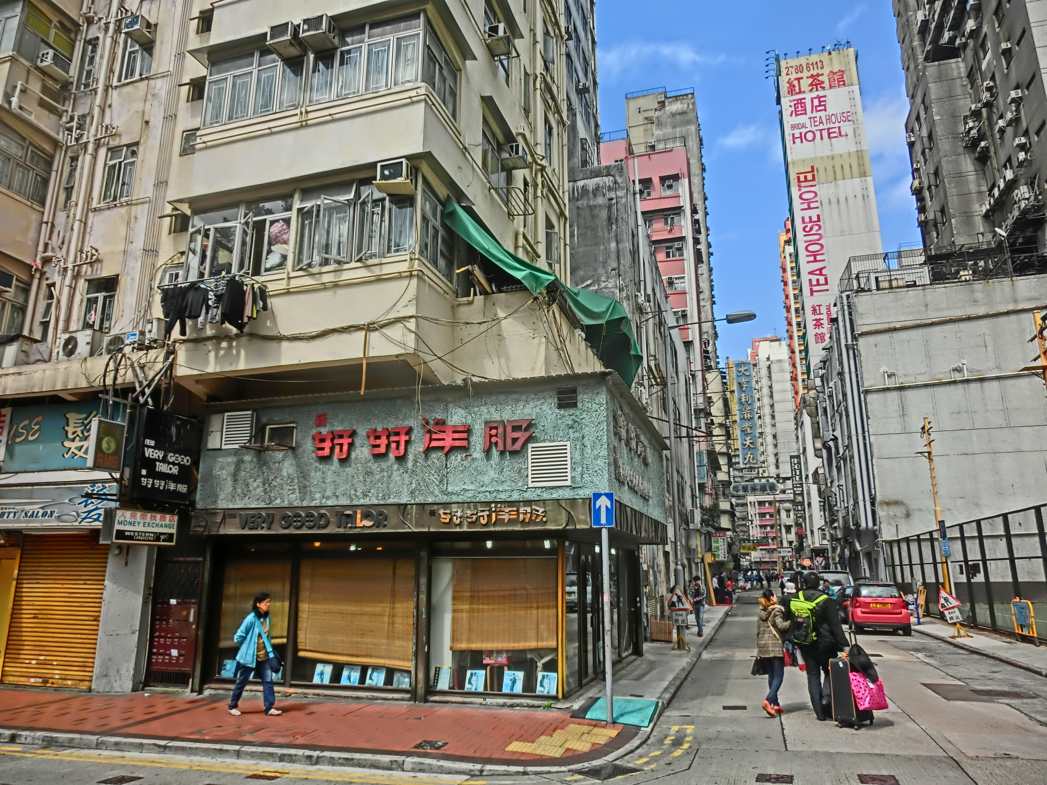 New Very Good Tailor shop in Arthur Street, Yau Ma Tei, Hong Kong